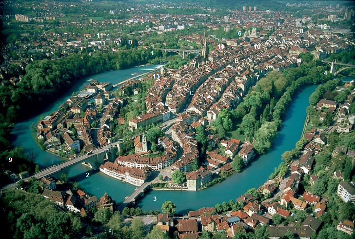 An aerial photo of Bern.